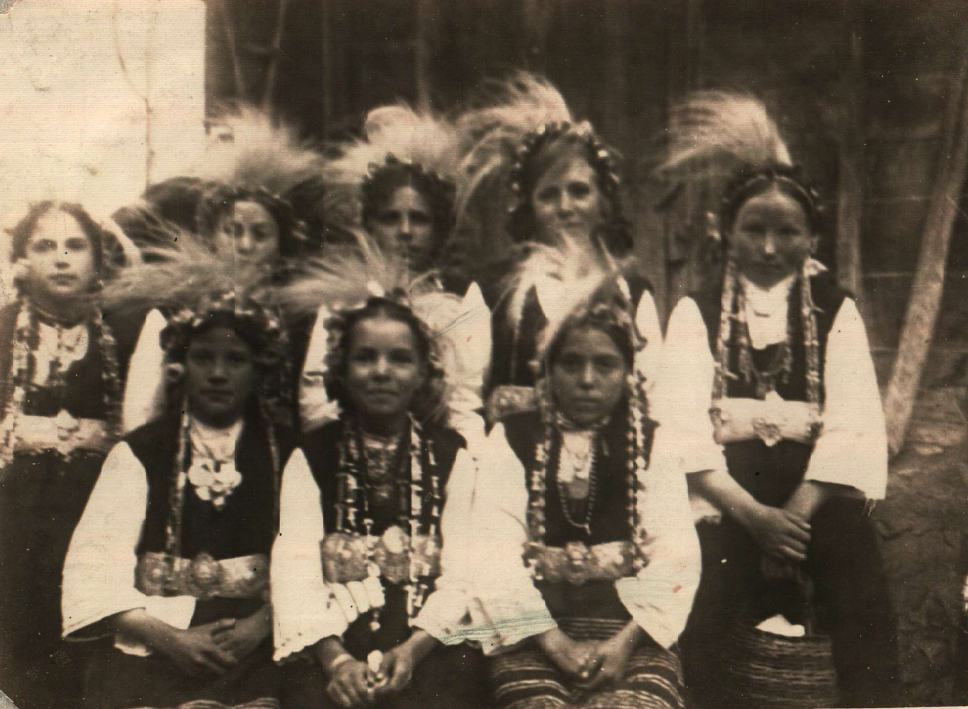 Lazarki from Dragalevtsi, Bulgaria